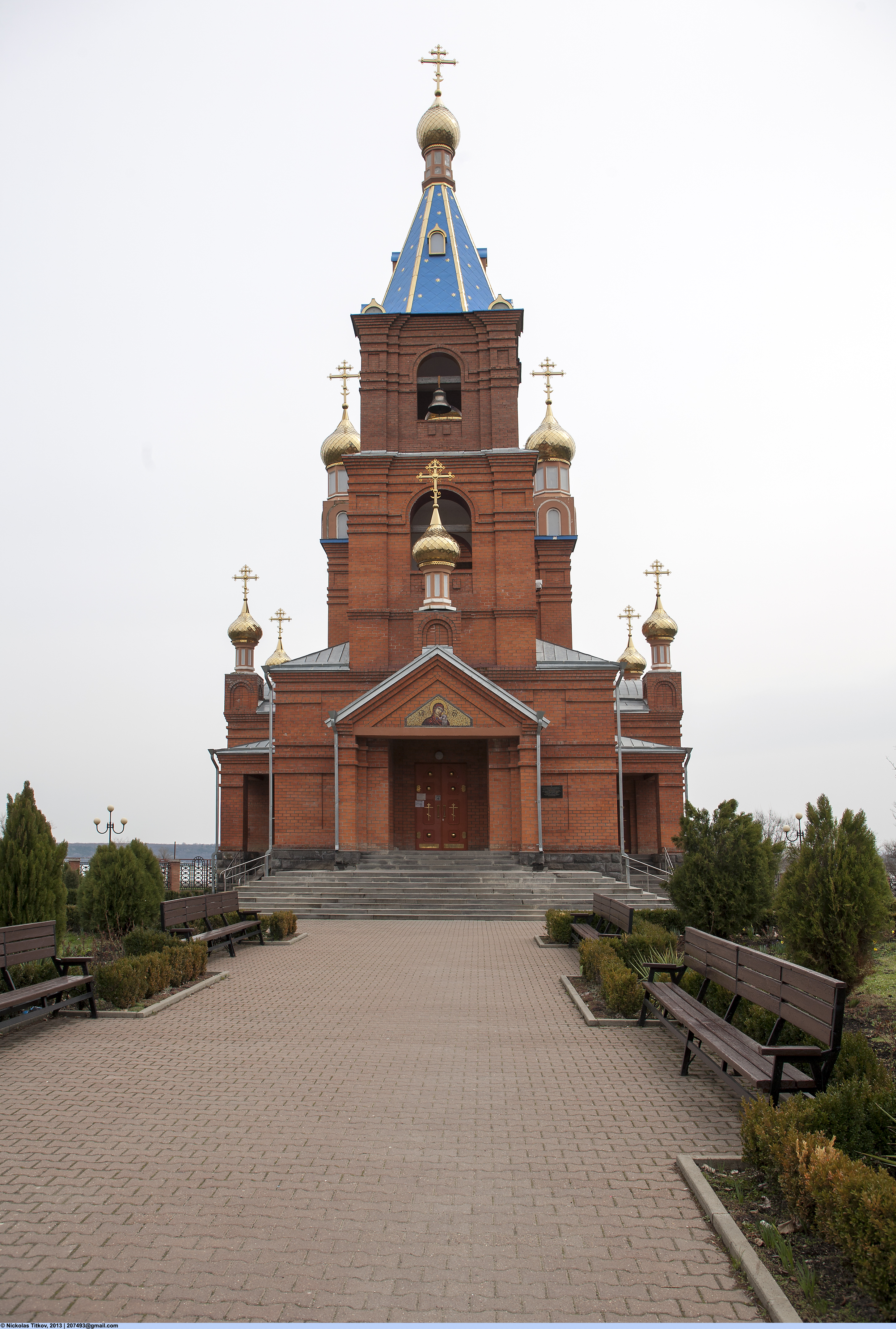 Церковь Казанской иконы Божией Матери поселка Солнечнодольск